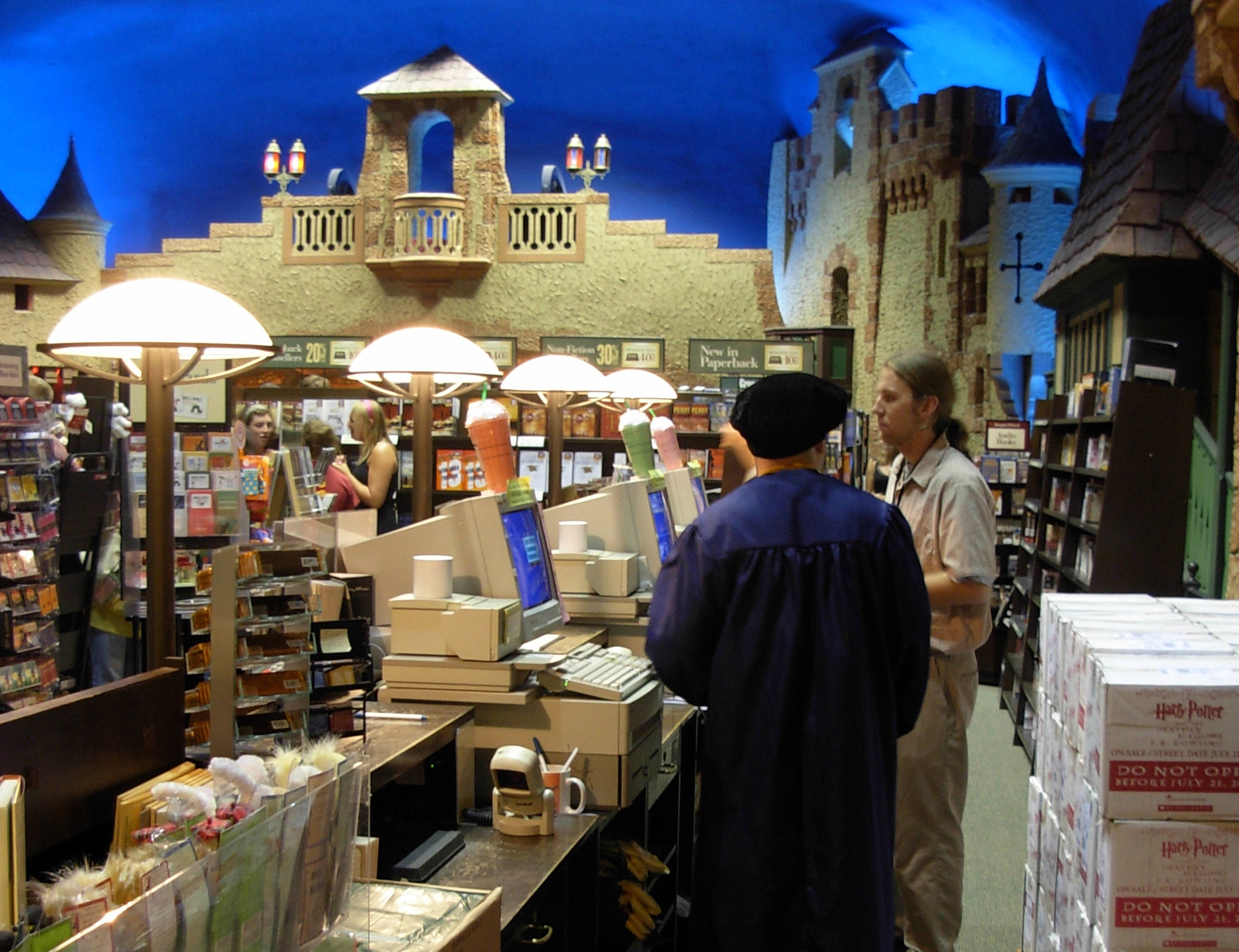 Minutes before "Harry Potter and the Deathly Hallows" went on sale at Barnes & Noble bookstore in downtown Rochester, Minnesota